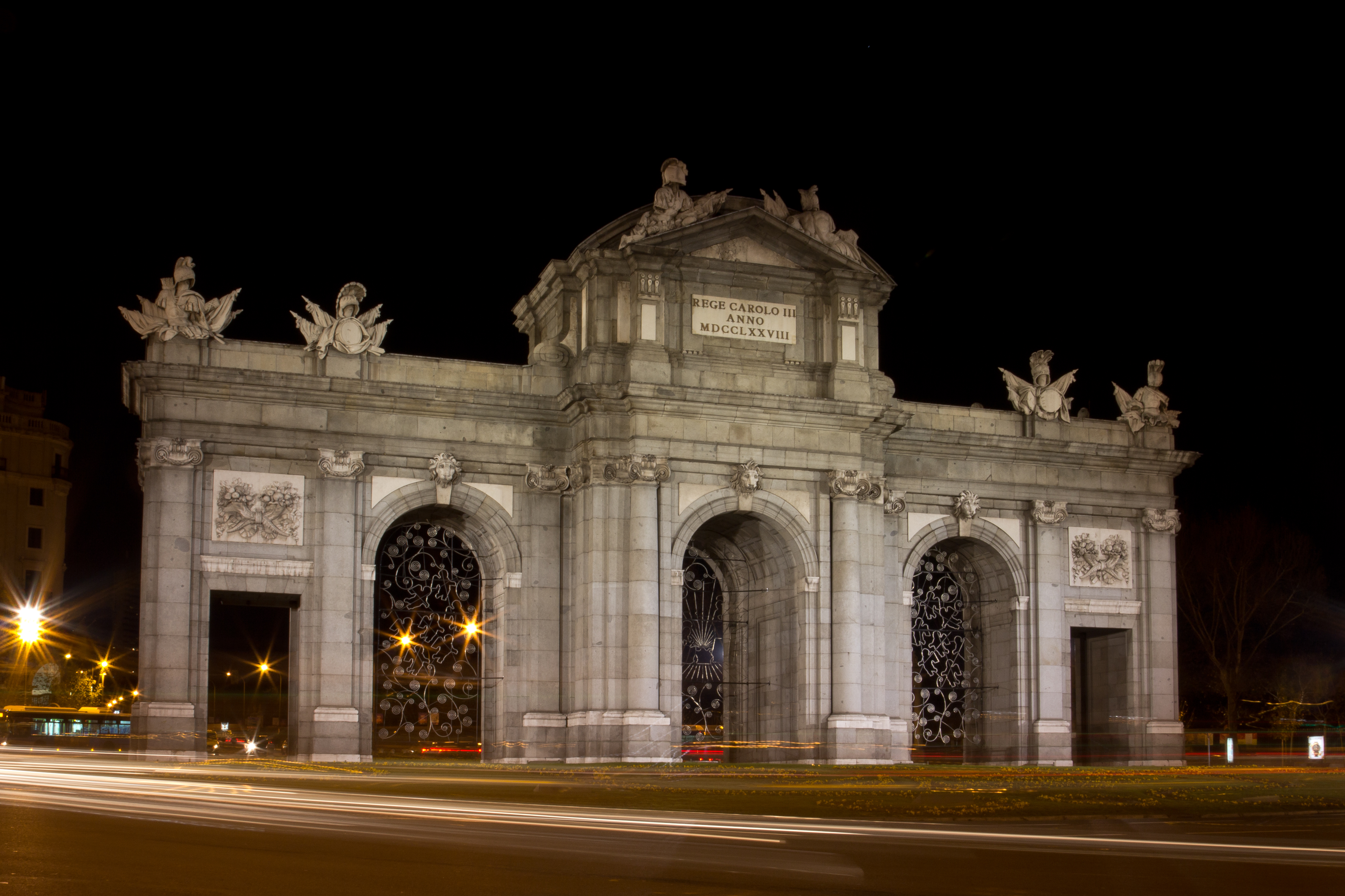 Puerta de Alcalá at night, Madrid, Spain.